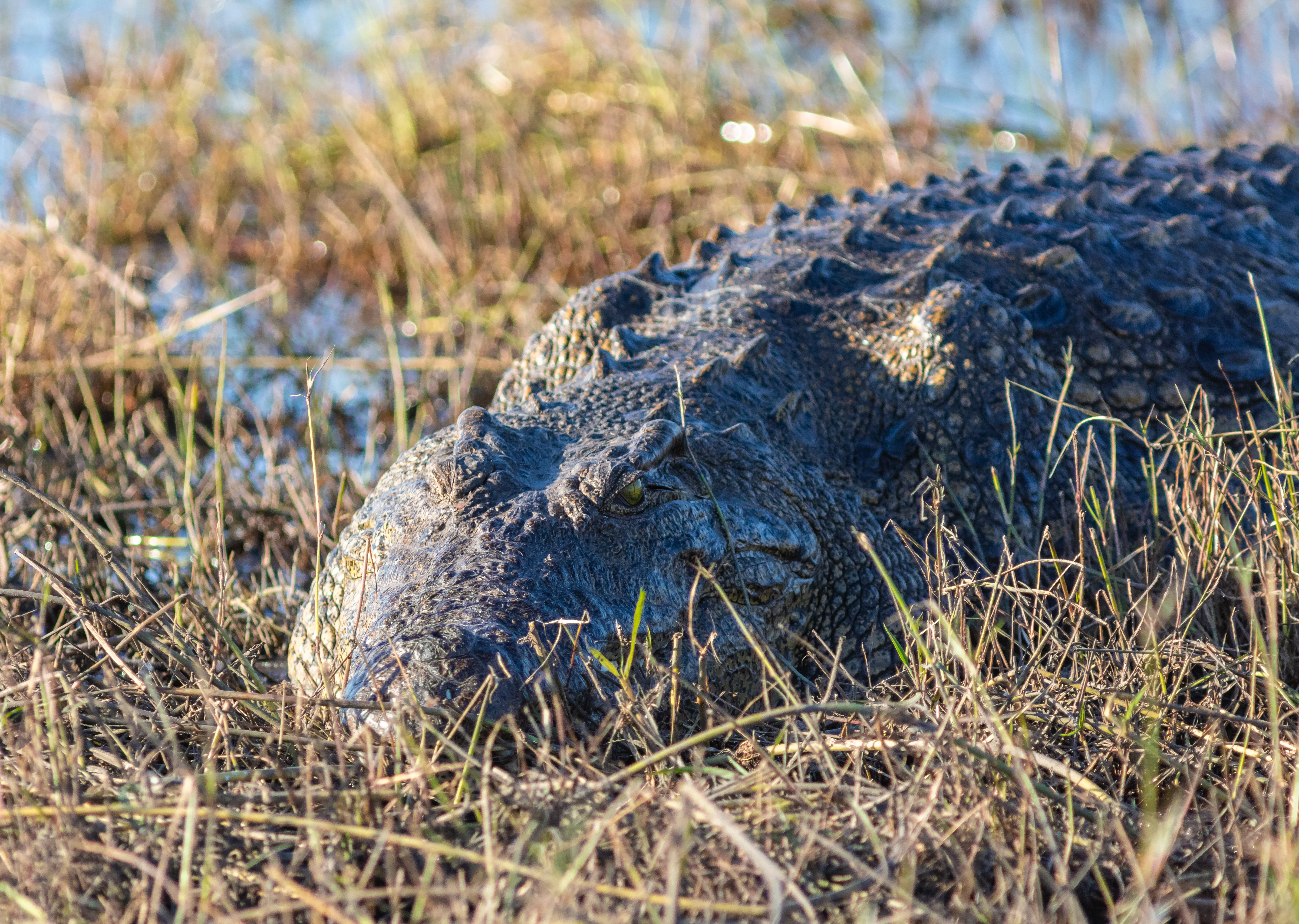 Nile crocodile (Crocodylus niloticus), Chobe National Park, Botswana